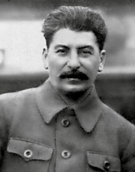 Photograph of General Secretary of the Soviet Union, Joseph Stalin, modified and reuploaded by Emiya1980. Photo was originally uploaded to wikipedia as File:Stalin-Joseph-1930.jpg by Carrite at 01:40, 22 April 2011. Changes to original photo include cropping, cleaning via "wrinkle remover" , and a black-and-white color palette.